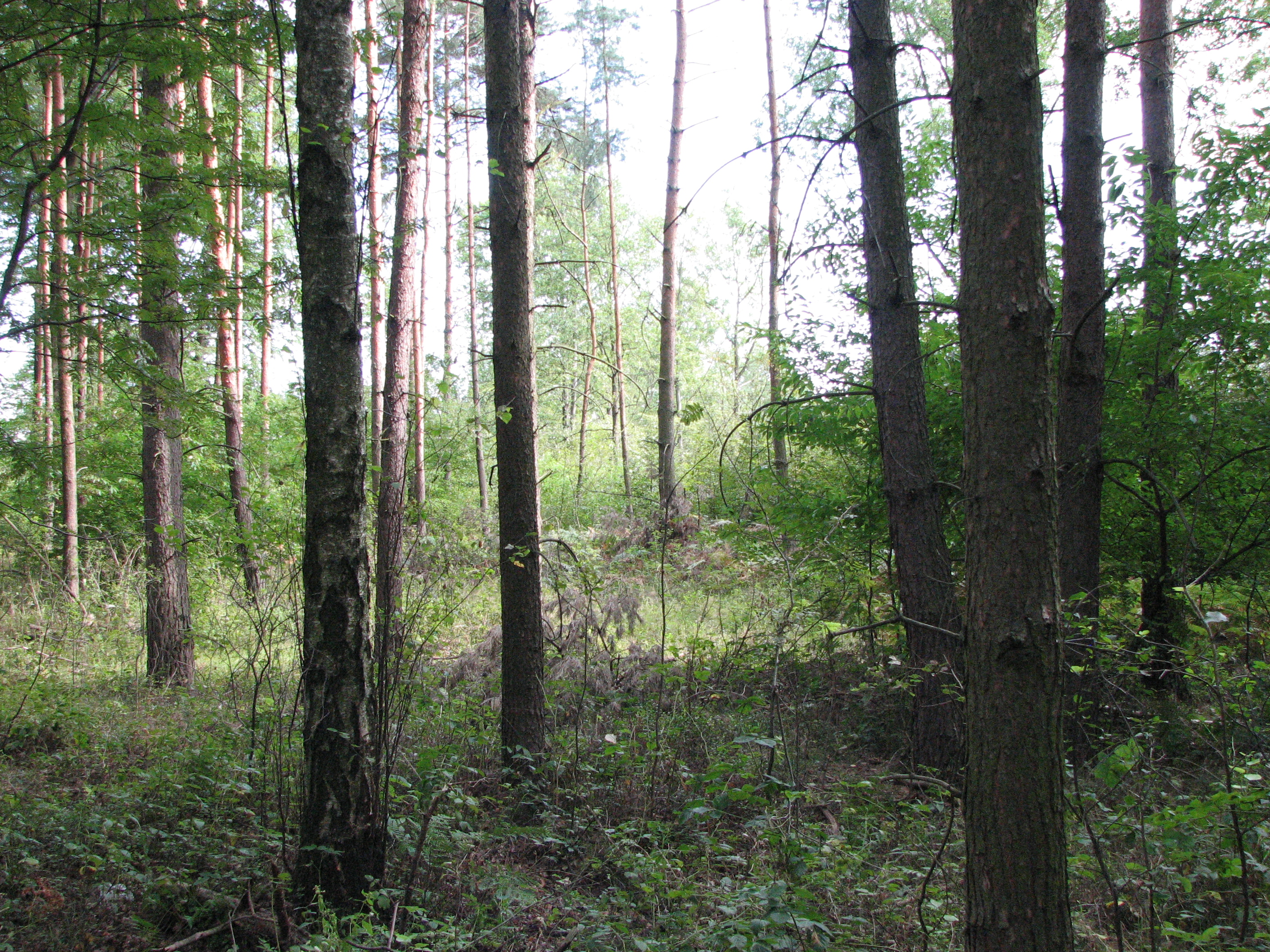 Panewniki's Forests in Katowice, Poland